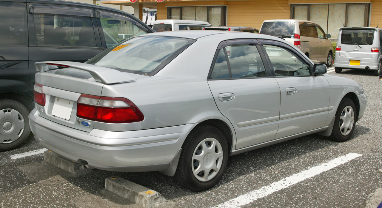 5th generation Ford Telstar ( 1997 - 1999 )